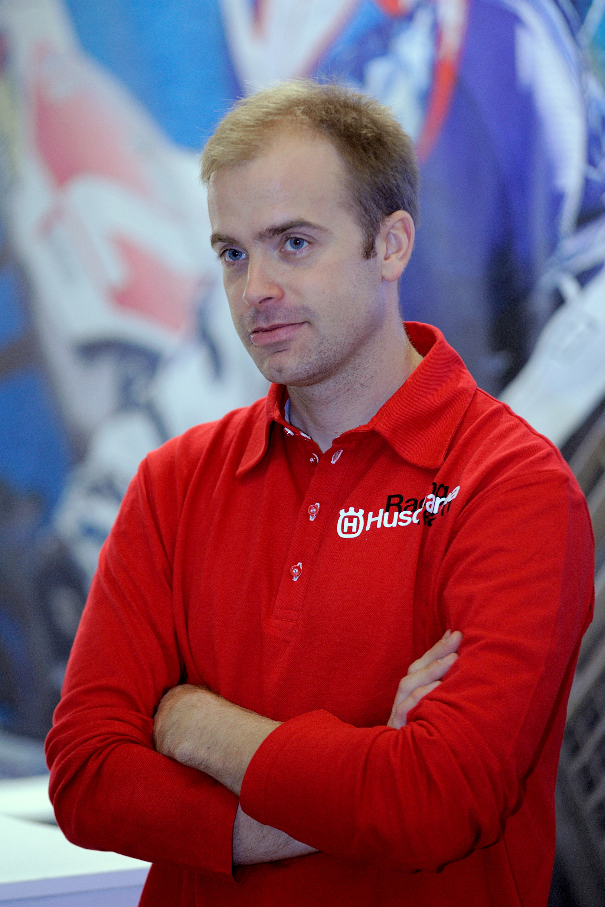 Finnish enduro rider Juha Salminen at the VM Motorshow.